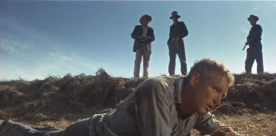 After beating Luke to the ground, the Captain delivers the quote "What we got here is failure to communicate"